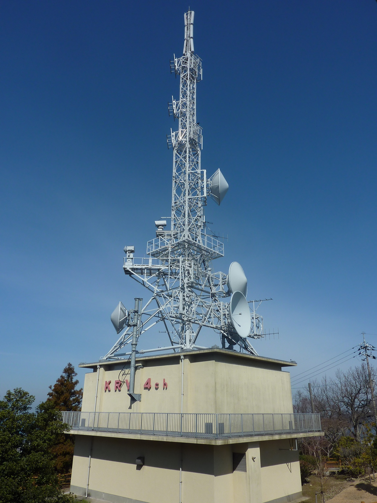 KRY Yamaguchi Broadcasting Kanmon Transmitting Station (Shimonoseki City, Yamaguchi, Japan